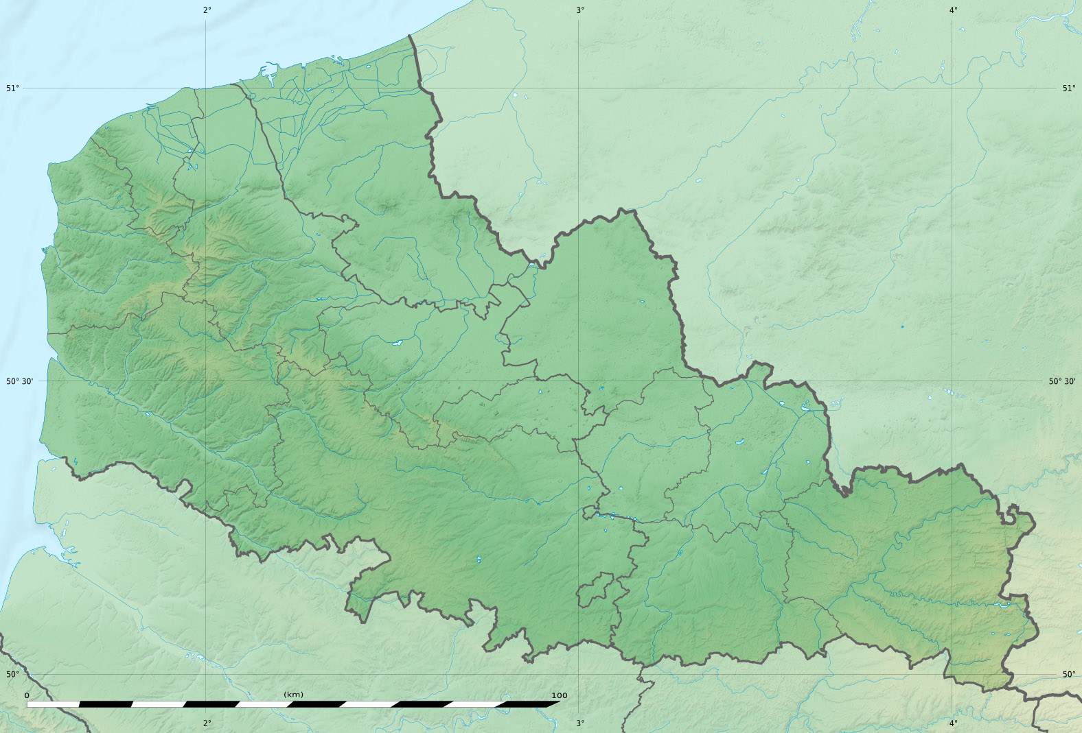 Blank physical map of the region of Nord-Pas-de-Calais, France, as in January 2007, for geo-location purpose, with distinct boundaries for regions, departments and arrondissements.